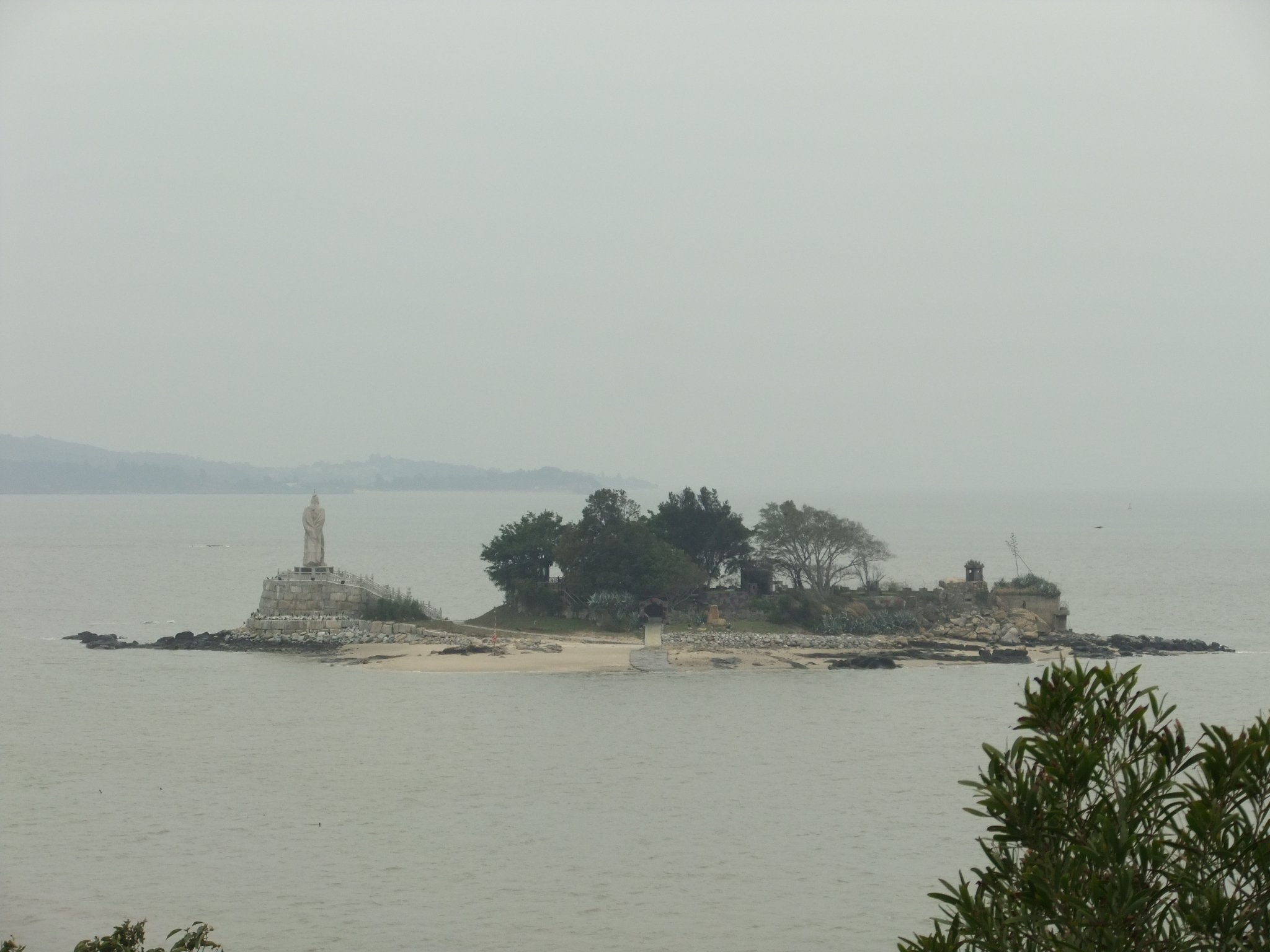 Jinmen harbor and Jiangong Island seen from the Jinmen Island's coast near the Koxinga Shrine.